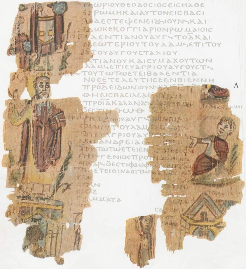 Alexandrian World Chronicle - 6v - Theophilus